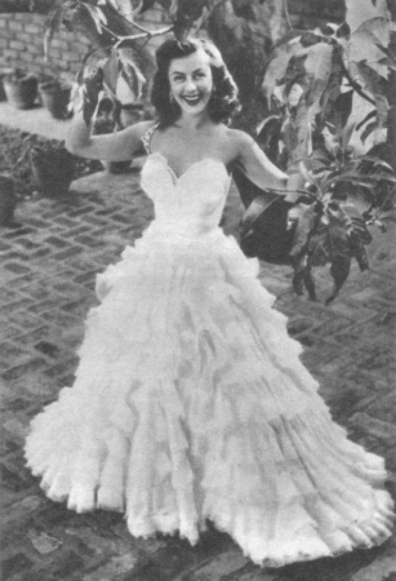 Kary Barnet